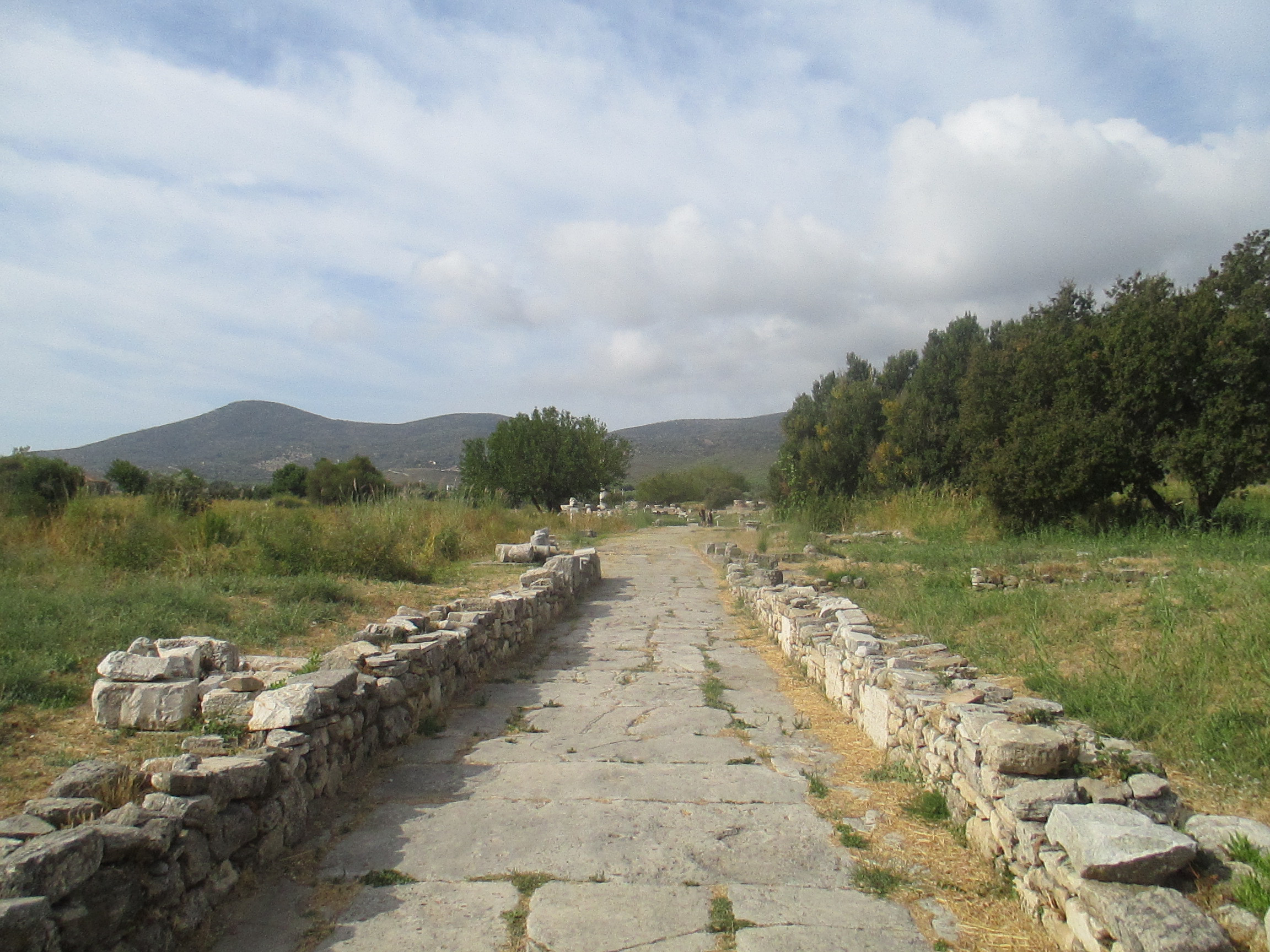 Heraion of Samos, the Sacred Road.